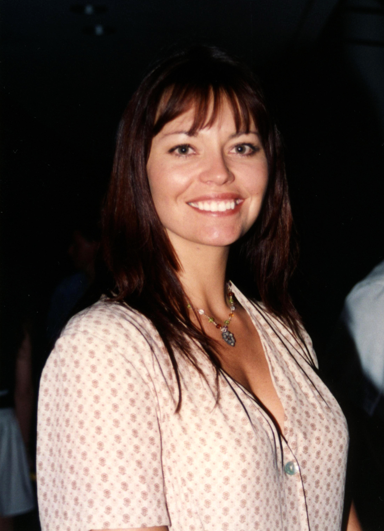 Musetta Vander at Houston screening of Oblivion 2: Backlash 1996.